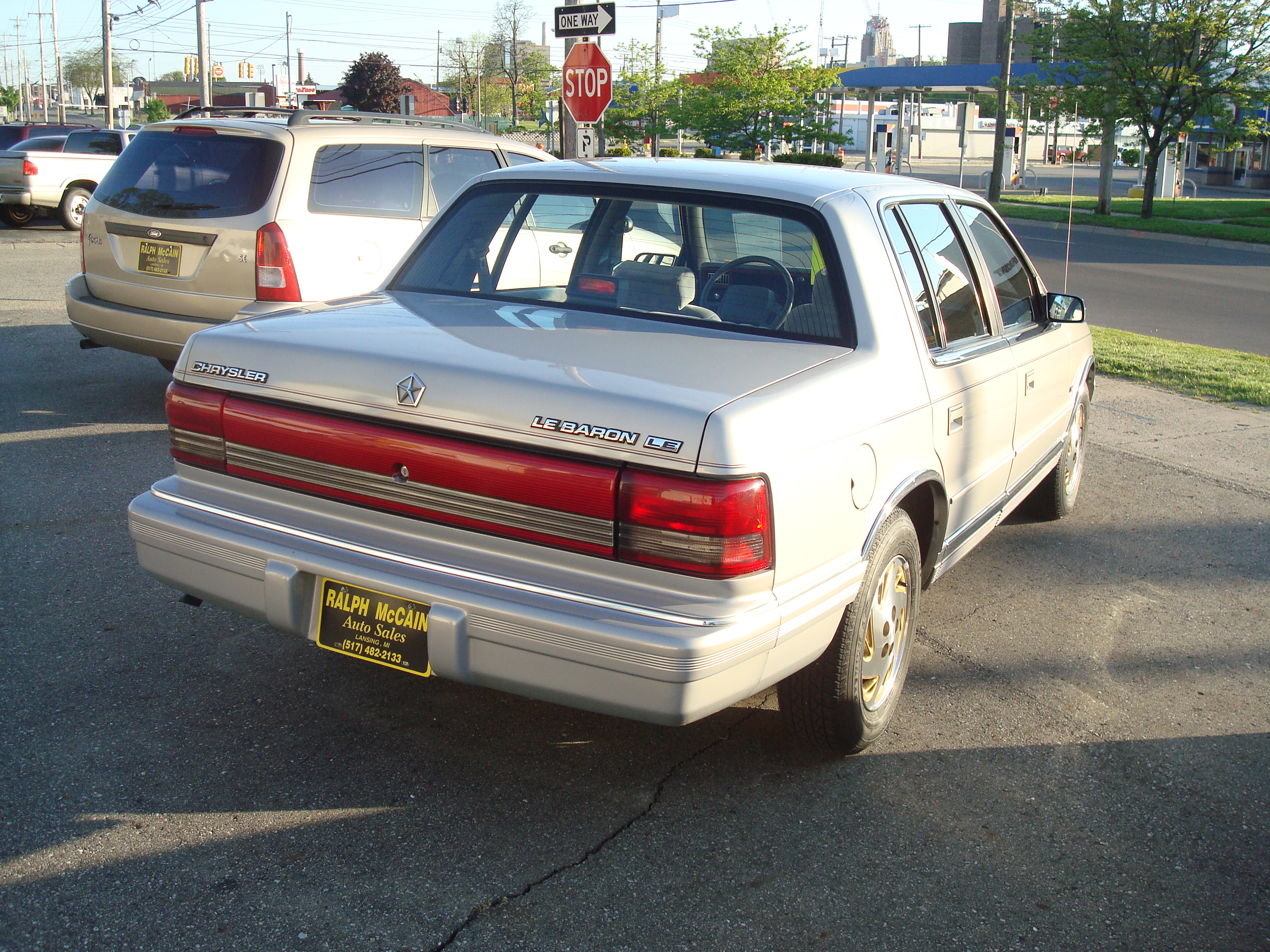 1994 Chrysler LeBaron LE Sedan